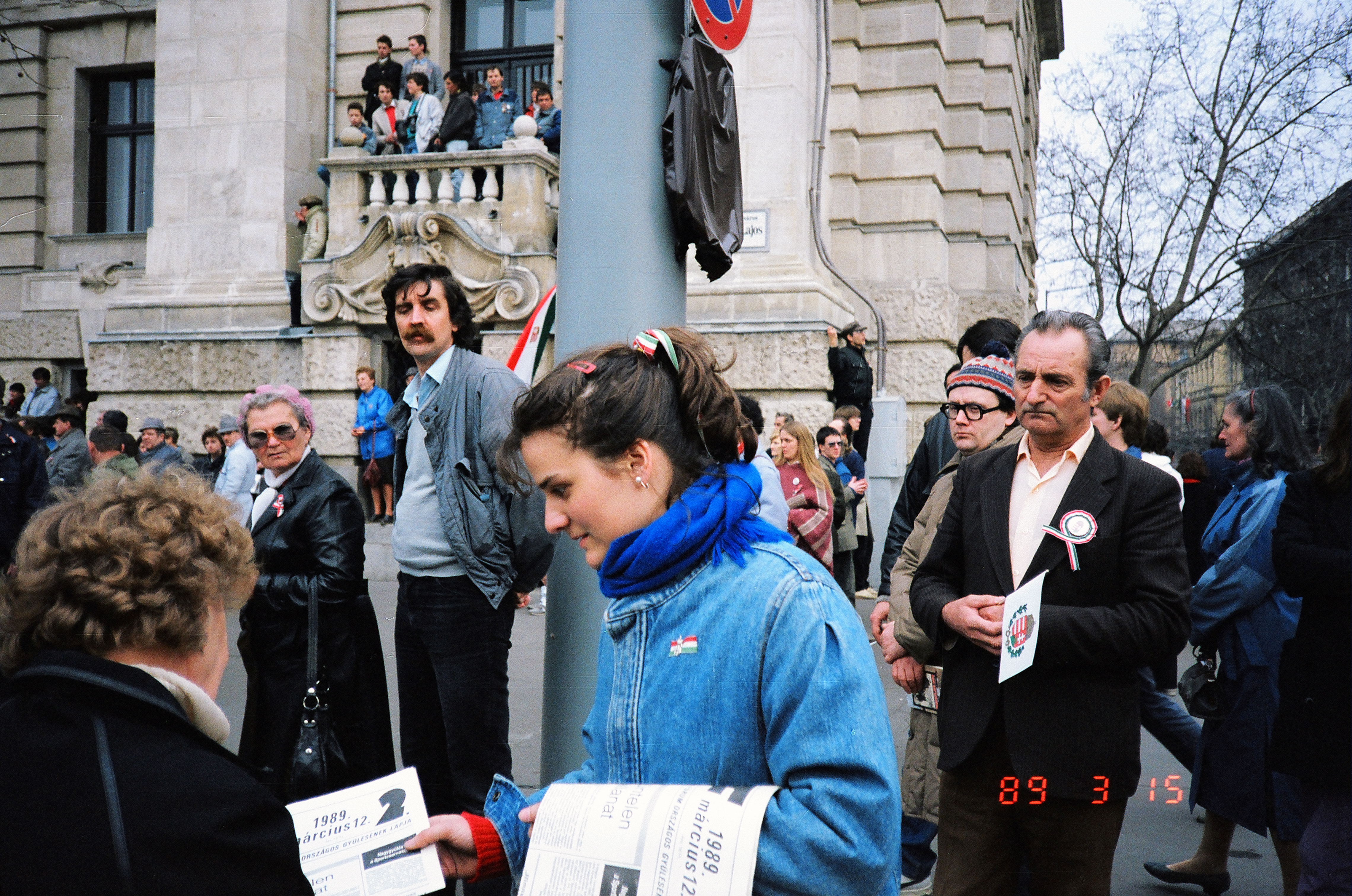 Live on the 15th of March, 1989. Hungary, Budapest. Kossuth Lajos tér at Alkotmány street. After decades of forbidden national days, on the 15th of March, 1989, the communist regime of Hungary allowed people to celebrate the 1956 revolution. Parallel with the state celebration at the National Museum, independant organisations called the public to gather at the statue of Petőfi Sándor. Published under Creative Commons in the Metapolisz DVD line. All of the photos and vids in the Metapolisz DVD line are under Creative Commons and can be used even for commercial – for profit – purposes. Recommended Citation Derzsi Elekes Andor: Metapolisz DVD line Megjelent Creative Commons alatt a Metapolisz sorozatban. A Metapolisz sorozat valamennyi képe és filmje Creative Commons alatti valamint kereskedelmi - for profit - célra is felhasználható. Ajánlott hivatkozás: Derzsi Elekes Andor: Metapolisz DVD line Tags: Hungary Magyarország 1989 March the 15th Budapest change of the system Bégány Attila Derzsi Elekes Andor Metapolisz Nemzeti Ünnep – Budapest, 1989.03.15 A felvétel 1989. március 15 –én, szerdán készült, Budapesten, a Petőfi szobornál (1, 2), a Szabadság téren (3, 4), a Kossuth téren (5, 6) illetve a Margit híd pesti hídfőjénél (7). A cellulóz film jpg formátumra szkennelt előhívása. Plakátok: 1. IGAZ…………..ÉST !, 2………MEDIKUS CSOPORT, 3. RENDŐRÁLLAM HELYETT JOGÁLLAMOT ! 4. BO……..hogy Források: Petőfi szobor, Szabadság tér: MDF fáklyás felvonulás: Állambiztonsági jelentés: (Napi Operatív Információs Jelentés) 23. oldal 1989. március 15 – Az ellenzék előszőr mutatta meg az erejét Március 15-e a magyar fővárosban Címkék: Nemzeti Ünnep 1989. március 15 Budapest Magyarország Petőfi szobor Szabadság tér Kossuth tér Margit híd rendszerváltás Bégány Attila Derzsi Elekes Andor Metapolisz